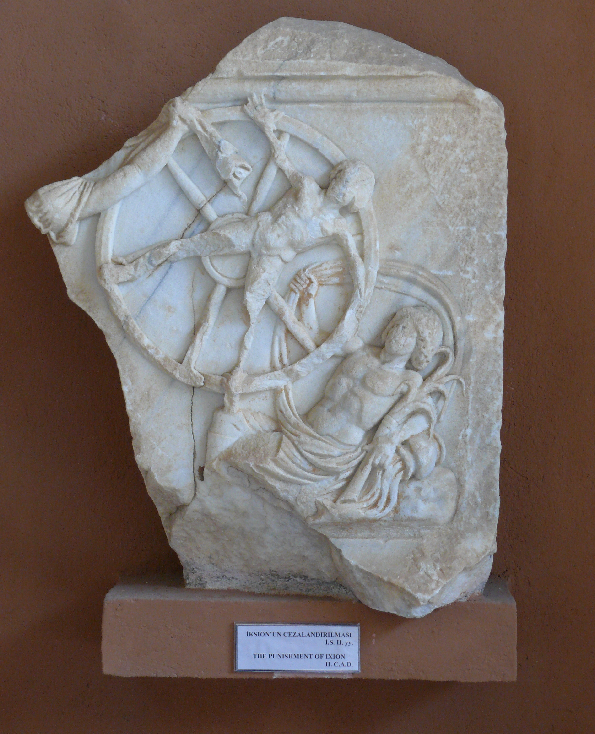 Relief with the punishment of Ixion (2nd century) in the Side Archaeological Museum (Side, Turkey). Ixion murdered his father-in-law and tried to seduce Zeus' wife Hera. Zeus ordered Hermes to bind Ixion to a winged fiery wheel that was always spinning; only when Orpheus played his lyre did it stop for a while. Therefore, Ixion is bound to a burning solar wheel for all eternity, at first spinning across the heavens